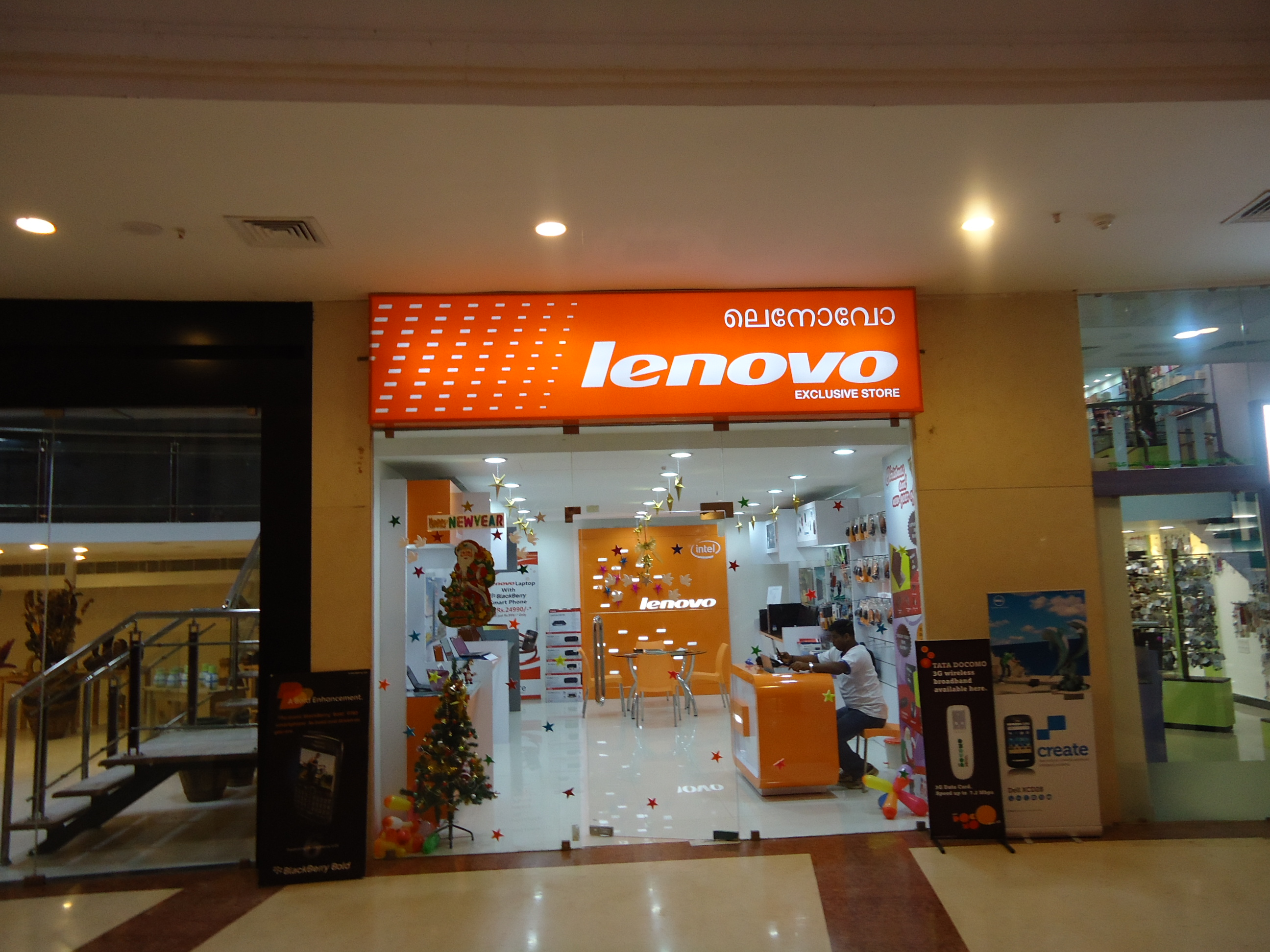 Gold_souk_grande_Lenovo_Shop